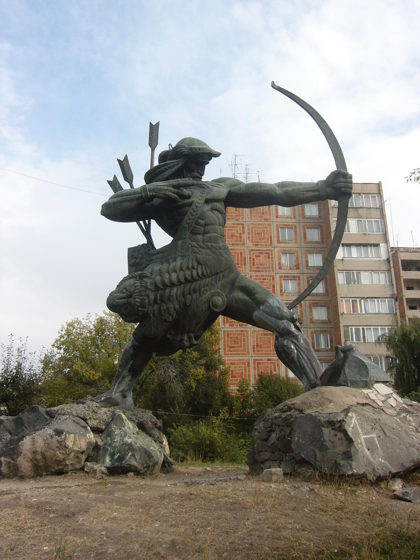 Statue of Patriarch Hayk in Yerevan, Armenia. Photo taken by Eupator.